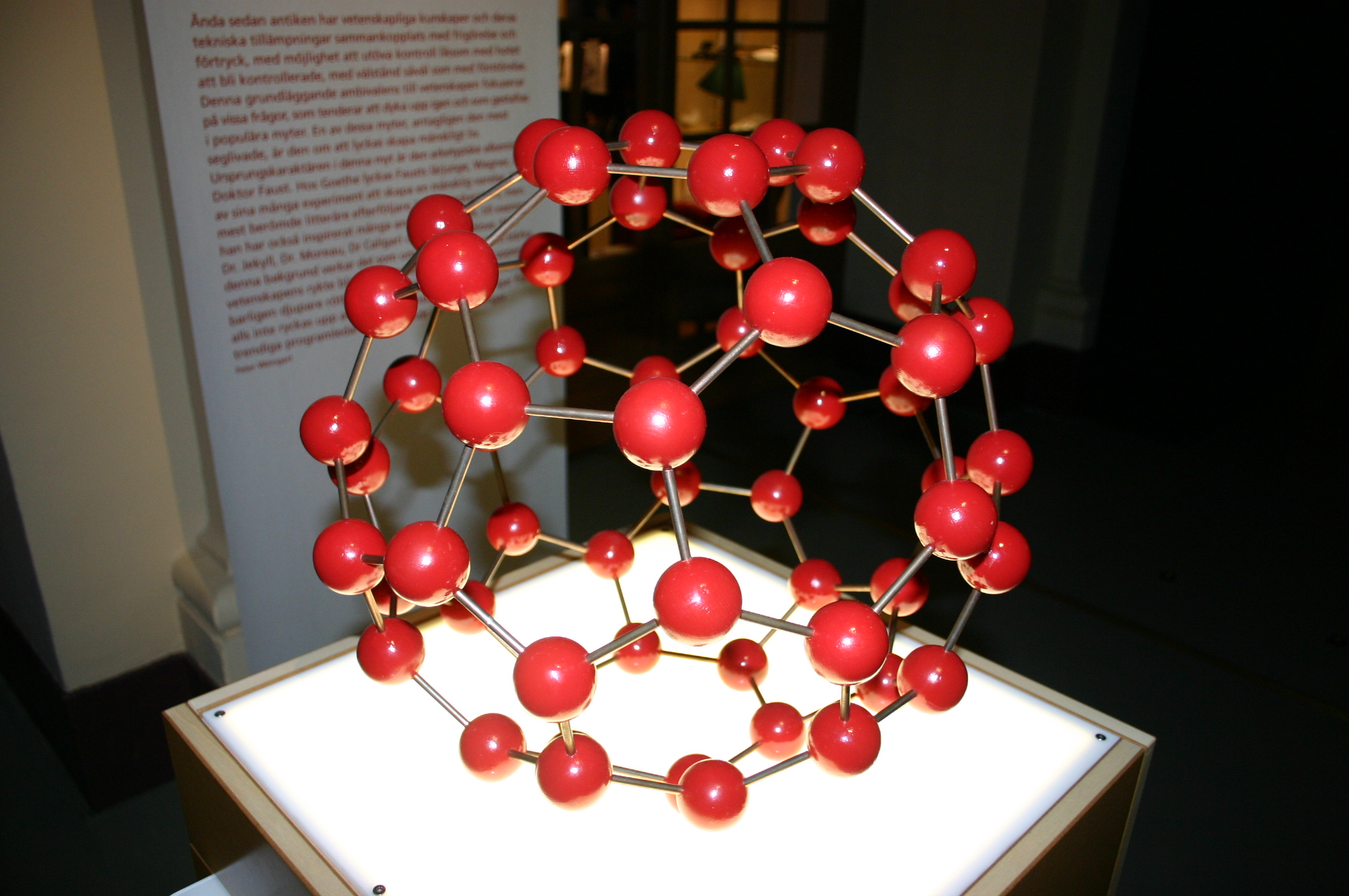 This photo shows a buckminsterfullerene (C60) model in red beads and silver rods. Nobel Prize Museum Native nameNobelmuseetLocationGamla stan in Stockholm, SwedenCoordinates59° 19′ 30.76″ N, 18° 04′ 14.7″ E Established2005Web pagenobelmuseum.seAuthority control : Q1968711 VIAF: 158485179 ISNI: 0000 0001 0747 4194 LCCN: n2005092884 GND: 1602982-3 SELIBR: 282216 WorldCat institution QS:P195,Q1968711